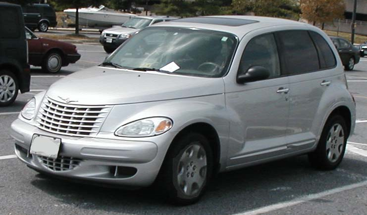 2001-2005 Chrysler PT Cruiser photographed in USA.